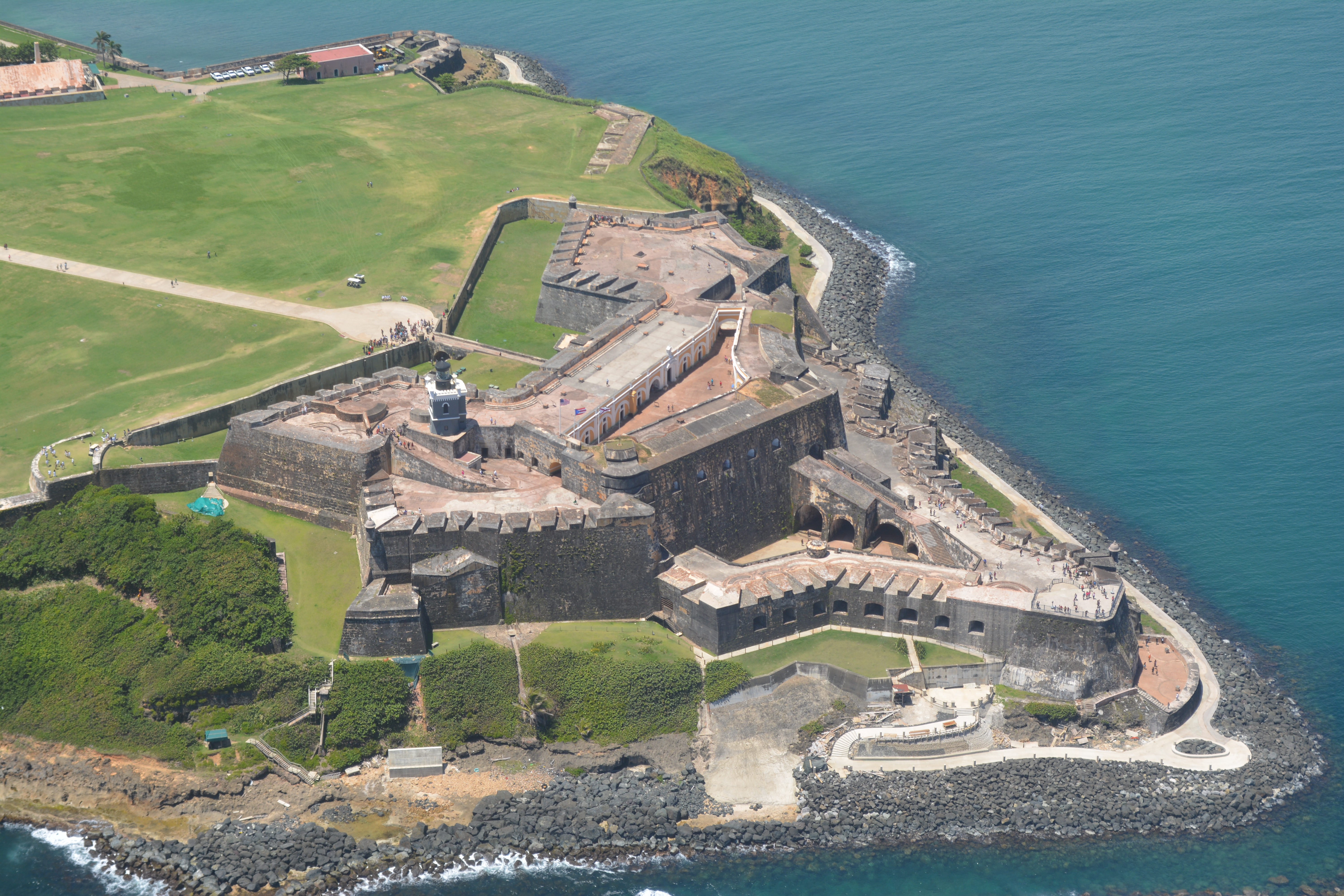 Taken from air on the way back from the island of Culebra